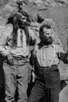 John Wesley Powell year 1869, Powell with Tau-gu, a Paiute, 1871-1872